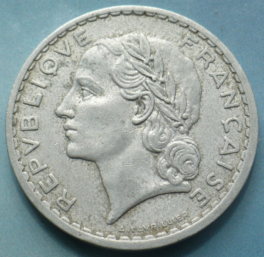 France 5 francs